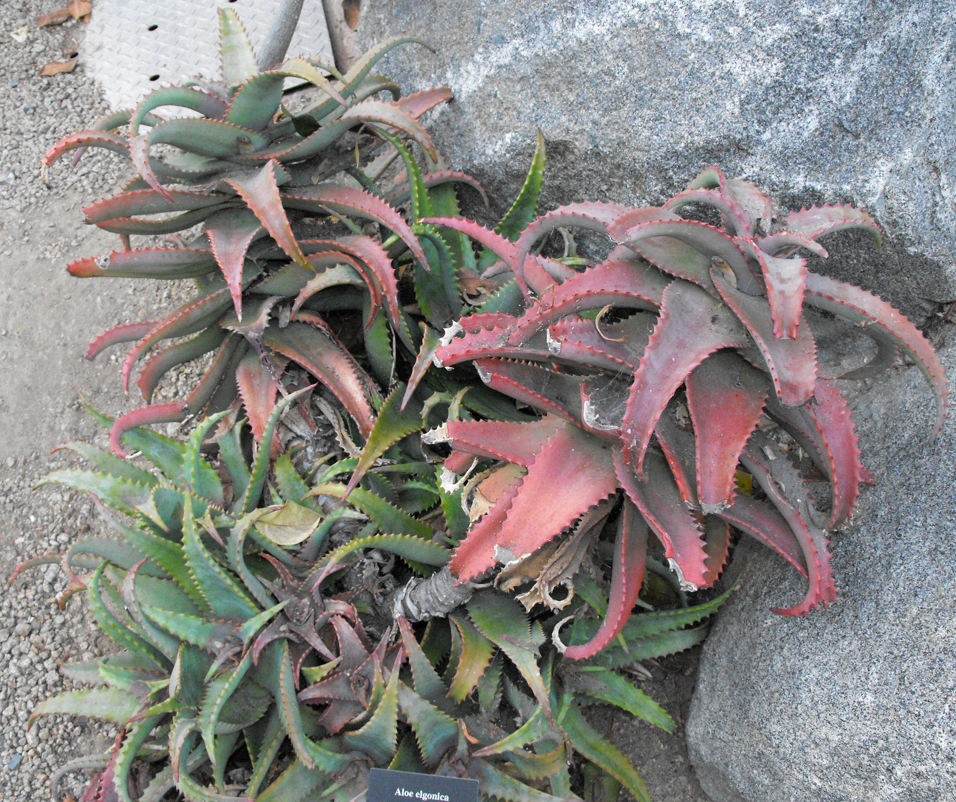 Aloe elgonica at the San Diego Zoo, California, USA.